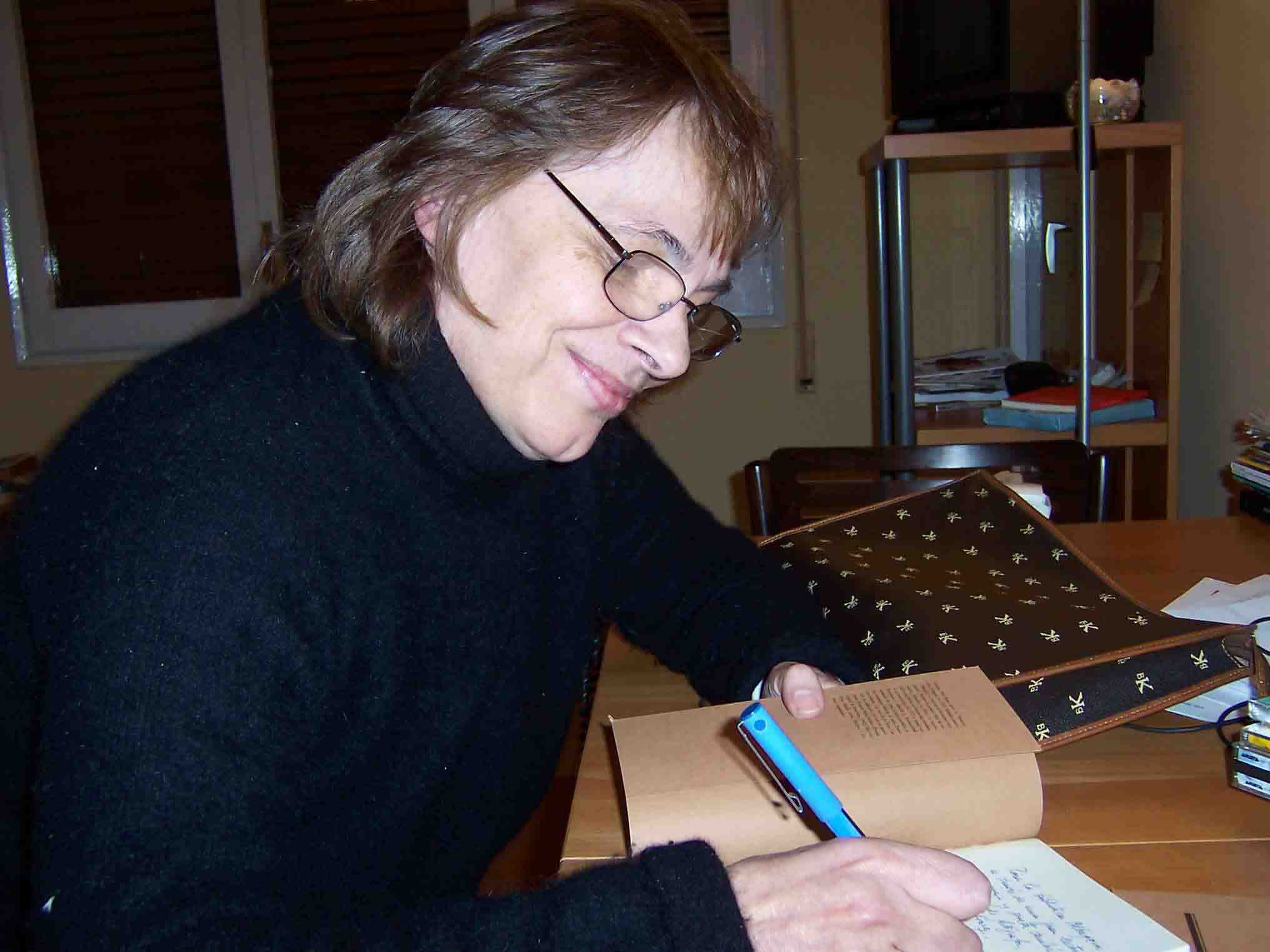 Dedicando su libro "Estrategias del deseo"